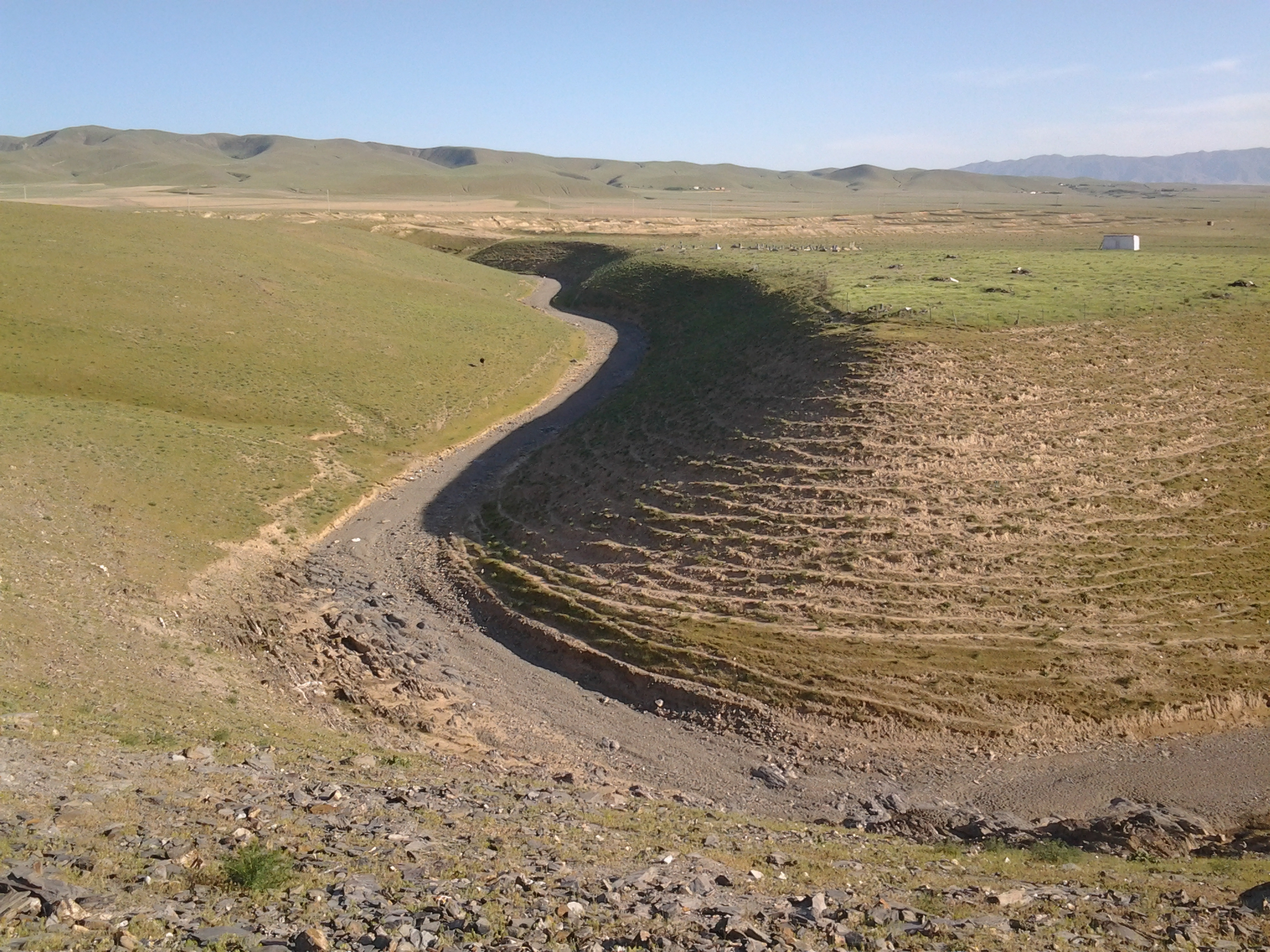 Akchab Say, seasonal left tributary of Beklar Say